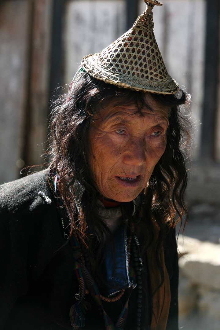 A woman of the Layap tribe from the Laya area of Bhutan.